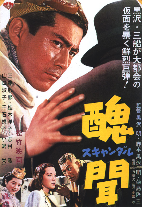 Movie poster for 1950 Japanese movie Scandal (醜聞, Shubun).